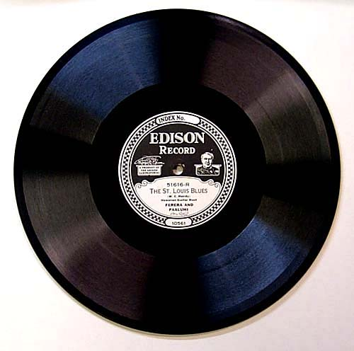 Edison Disc Record of St. Louis Blues, by Frank Ferera, published by Edison